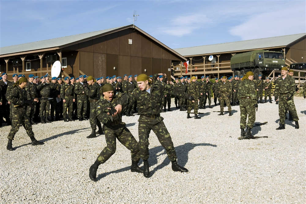 Ukraine Army Maj. Evgen Piven disarms Ukrainian Army Pvt. Mikhail Moroz during a martial arts demonstration on Dec. 6, Ukraine Armed Forces Day, at Camp Bondsteel, Kosovo. Both soldiers are members of the 79th Airmobile Brigade, an elite paratrooper unit with specialized training in hand-to-hand combat.